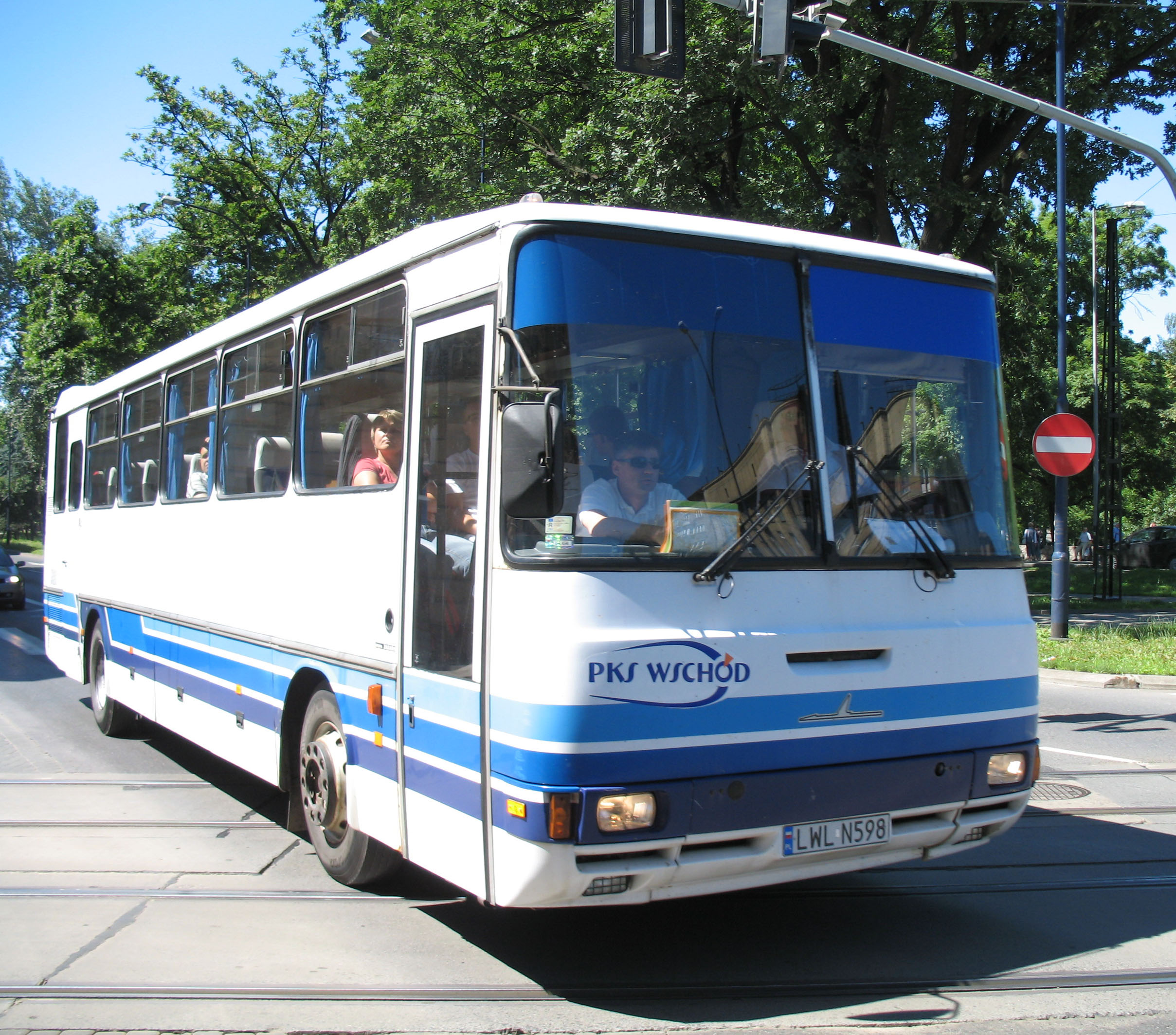 Autosan H10-12.16 Inter bus (#W90001, reg. LWL N598) in Kraków, Poland. PKS Wschód Lublin operator.